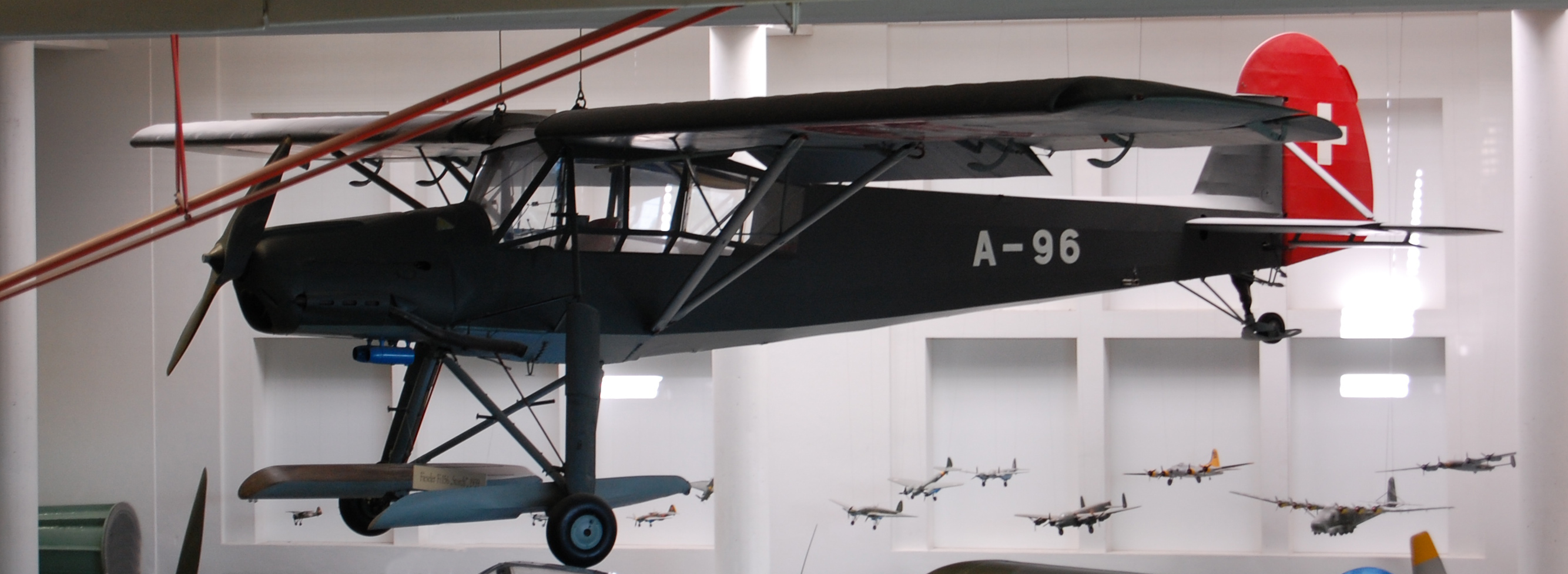 Fieseler Fi 156 Storch A-96, Deutsches Museum, Munich